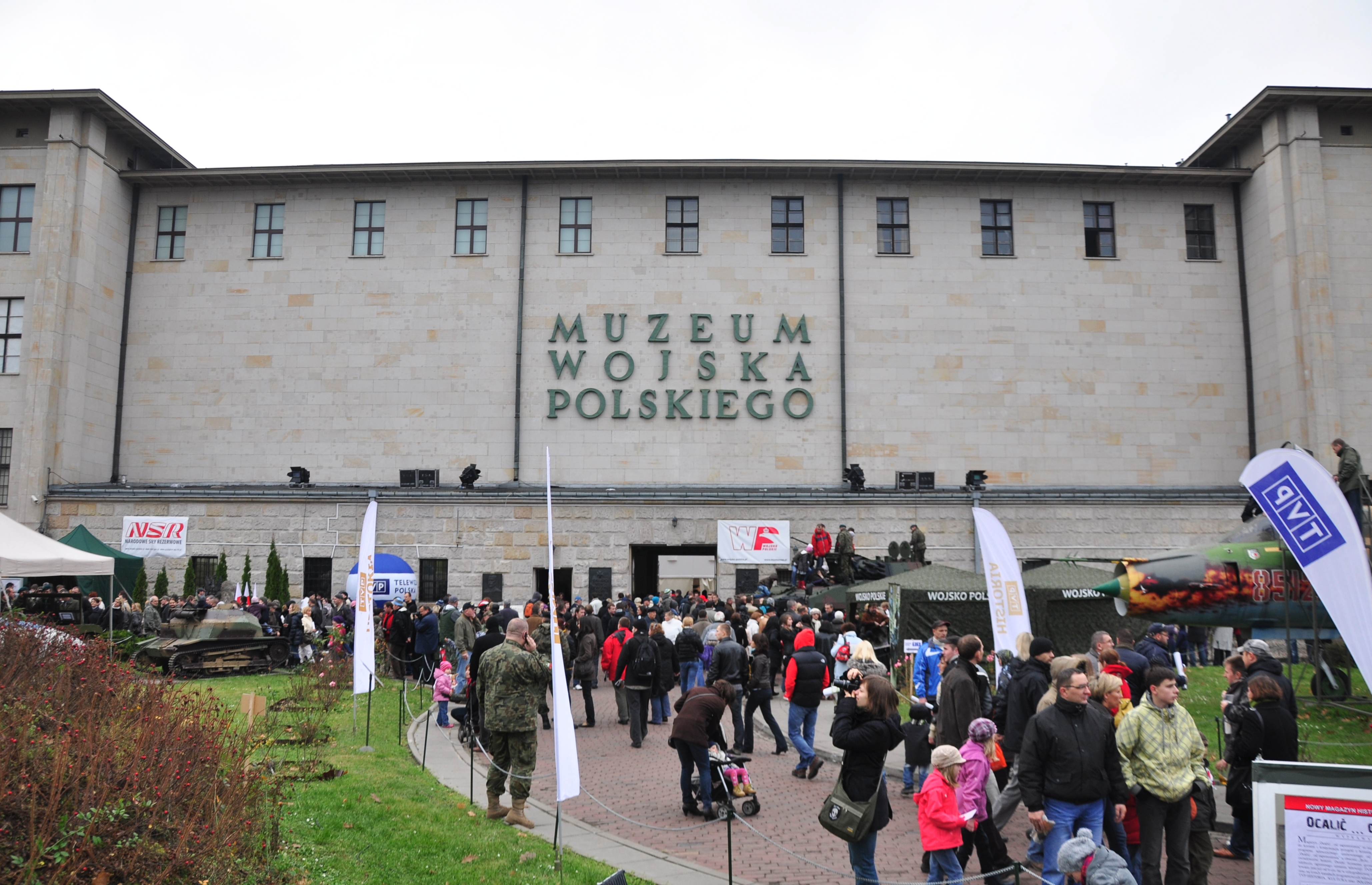 Polish Military Museum Warsaw, Independence-day November 11th, 2010.